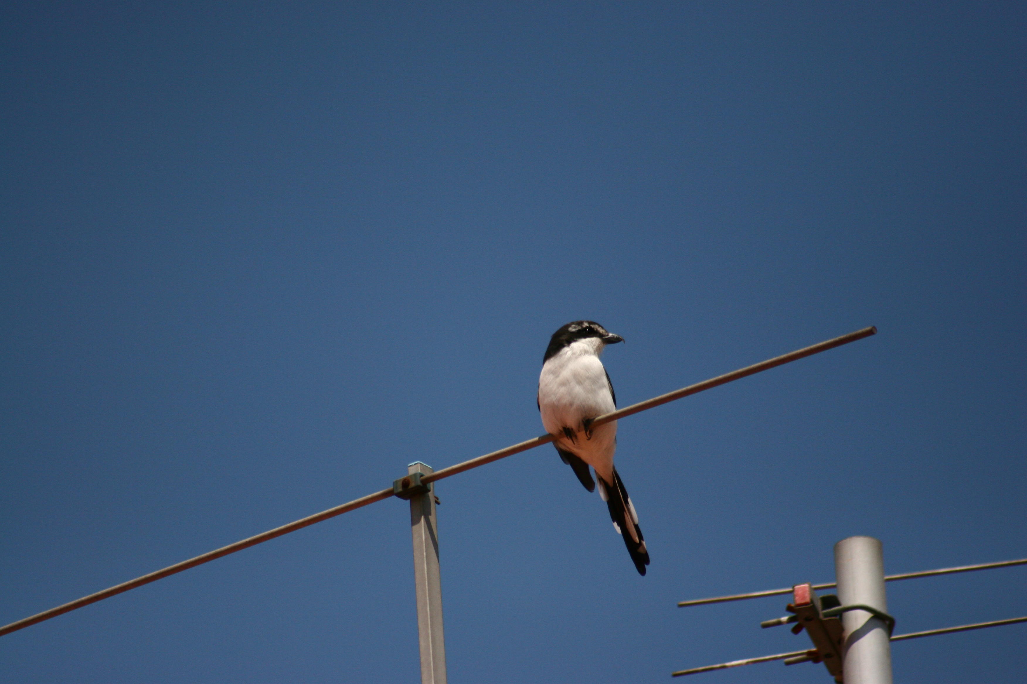 Lanius collaris subcoronatus